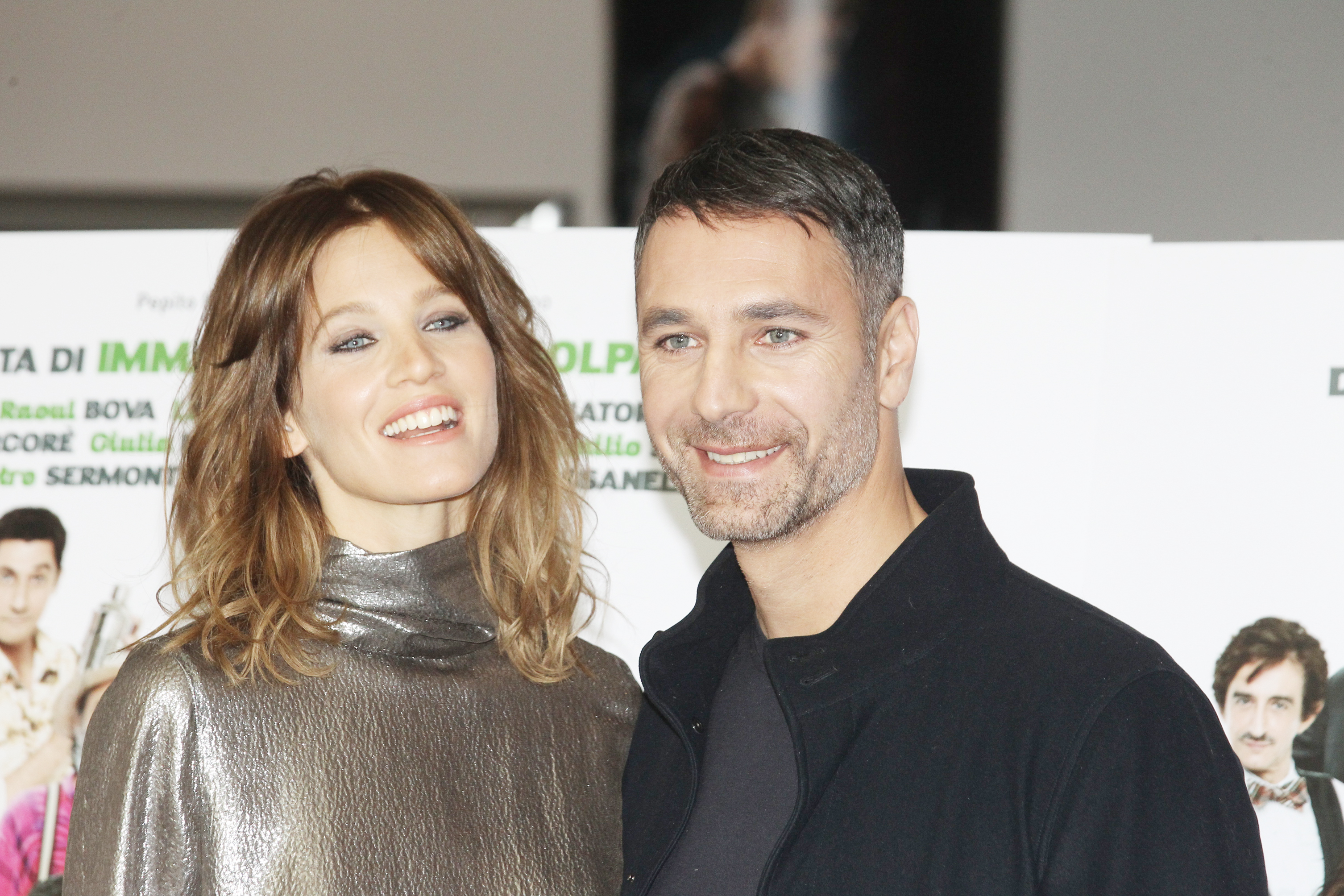 Argentine actress Liz Solari (left) and Italian actor Raoul Bova (right) during the promotion of the Italian movie Sei mai stata sulla Luna? by Paolo Genovese.